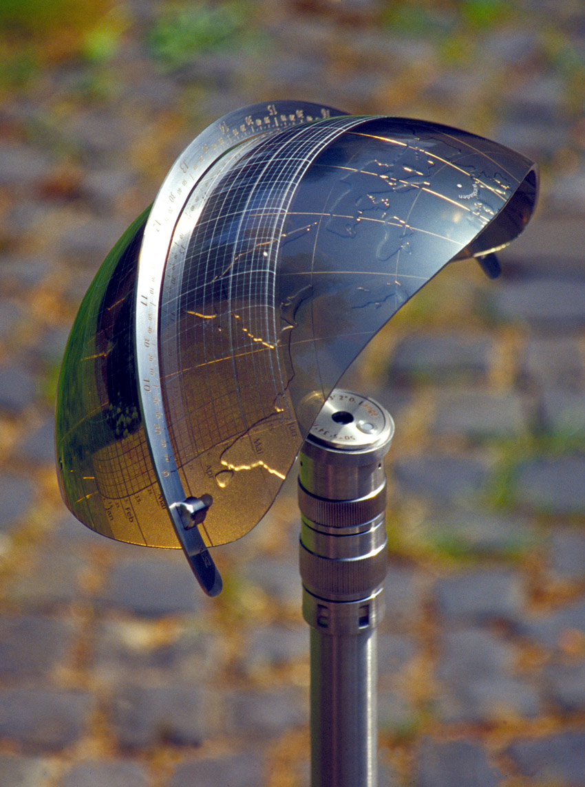 Helios sundial showing CET, date and sub-solar point